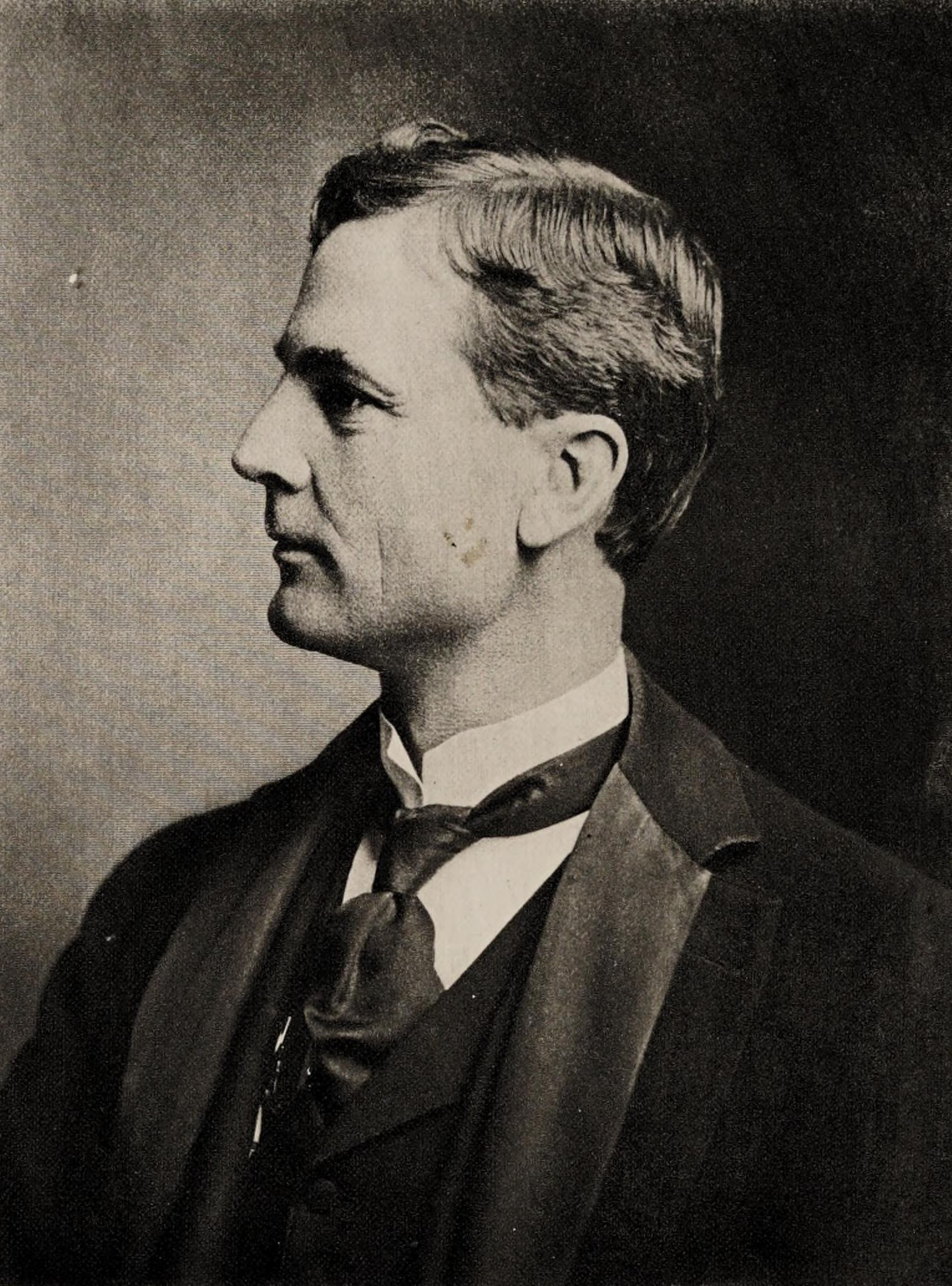 Lyman E. Barnes, US Representative from Wisconsin